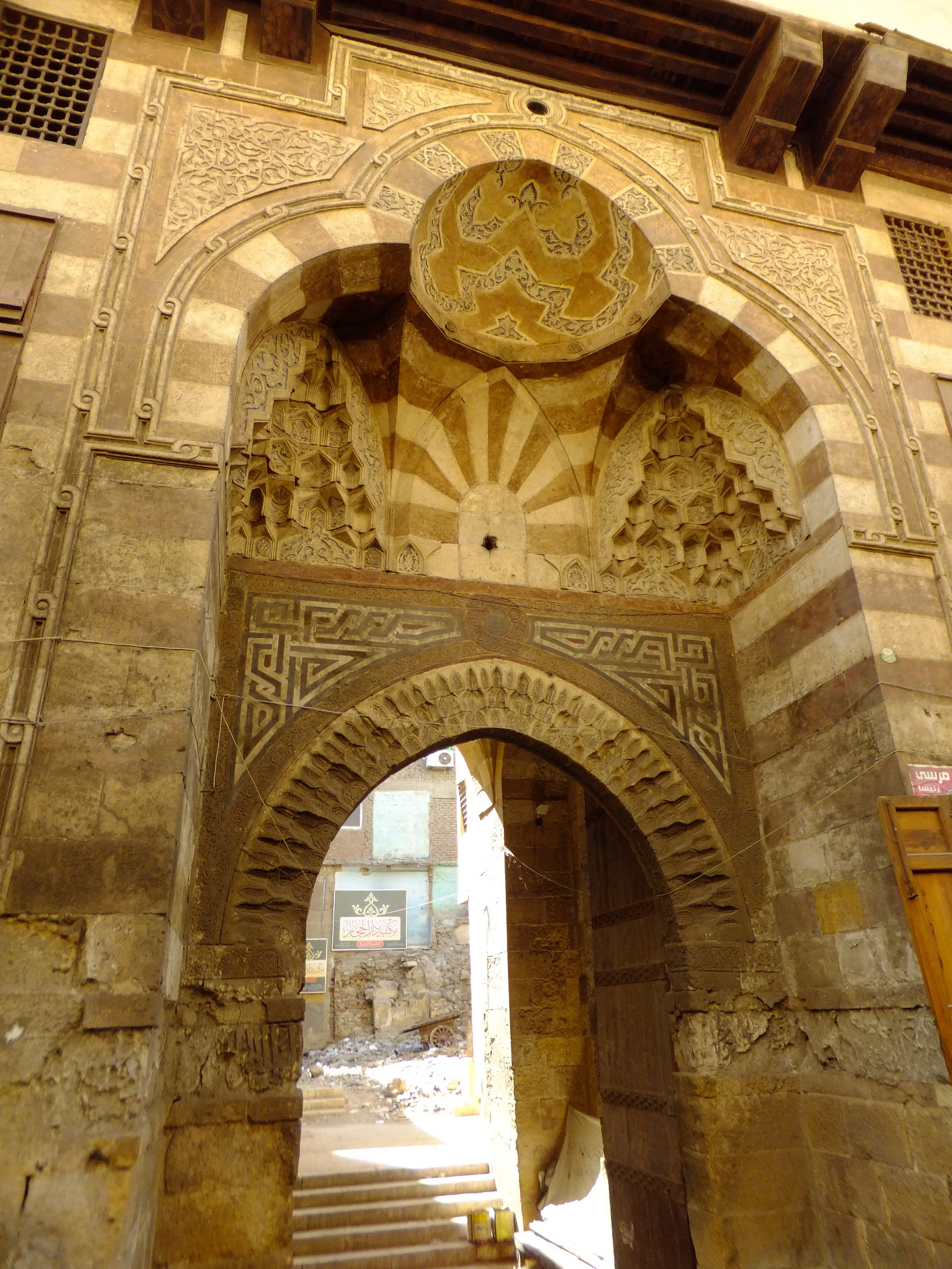 Main portal of the Wikala of Sultan Qa'it Bay near al-Azhar